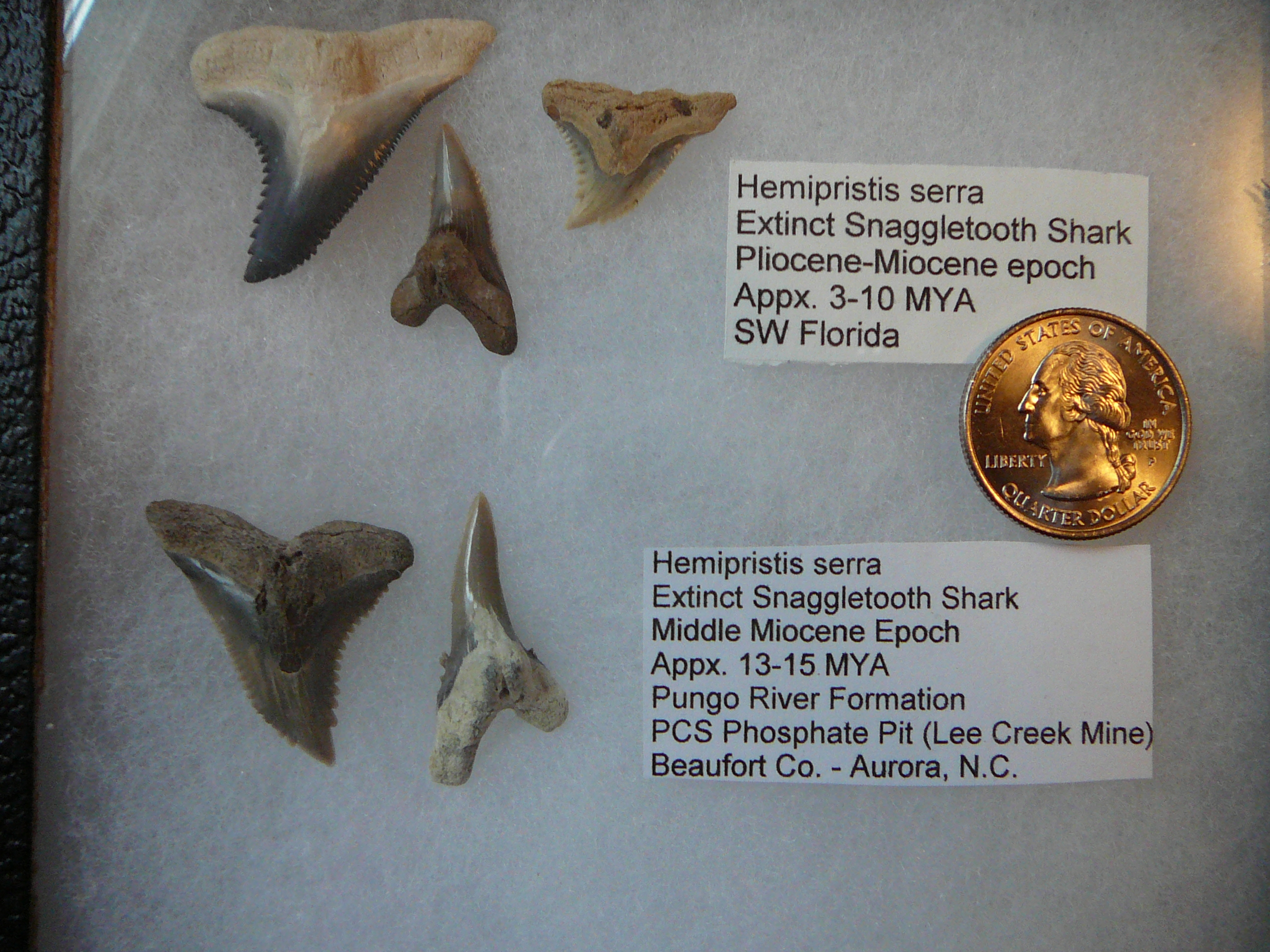 Several snaggletooth shark teeth from two different locations in the U.S., housed in a large ryker display. Very prized collectibles, as these types of teeth are noted for their exceptionally large and sharp serrations.